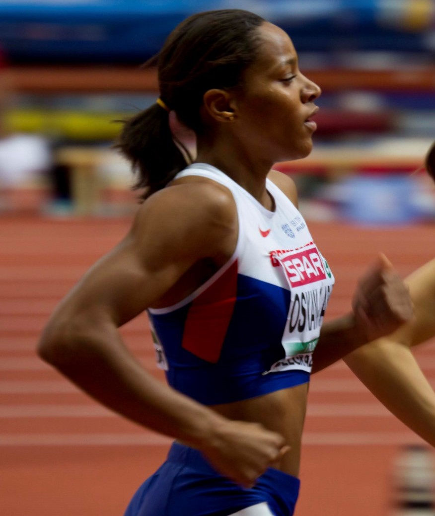 345 fin 800m buchel oskan-clarke